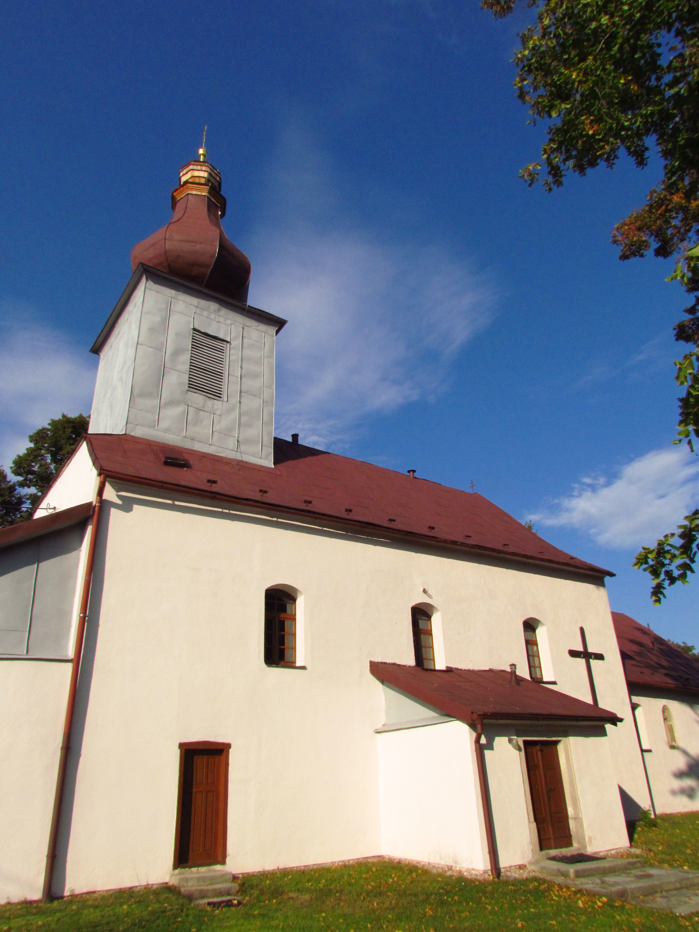 Overview of Church of Saint Wenceslaus in Chlum, Třebíč District.